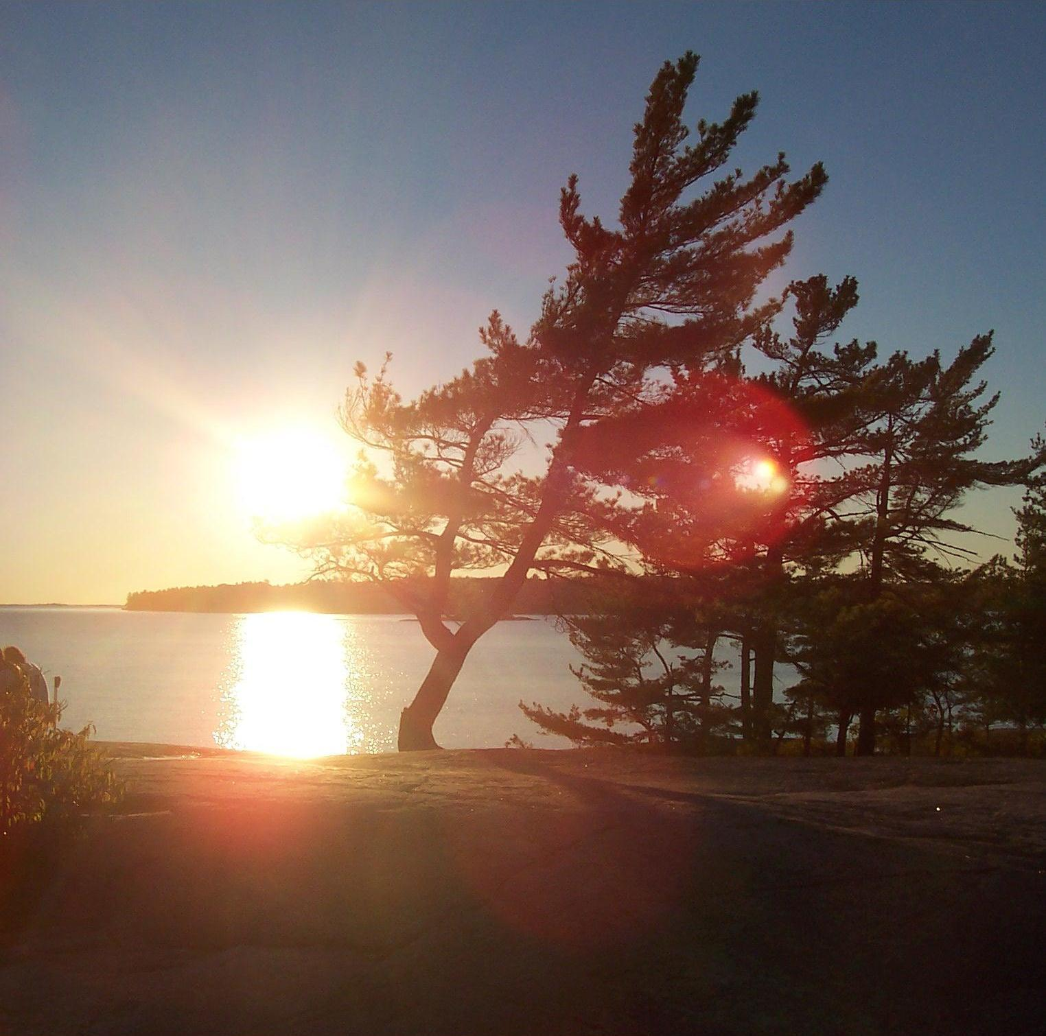 A windswept native Eastern White Pine on the Georgian Bay shore (eastern appendage of the main body of water that is the Great Lake Huron in Canada)